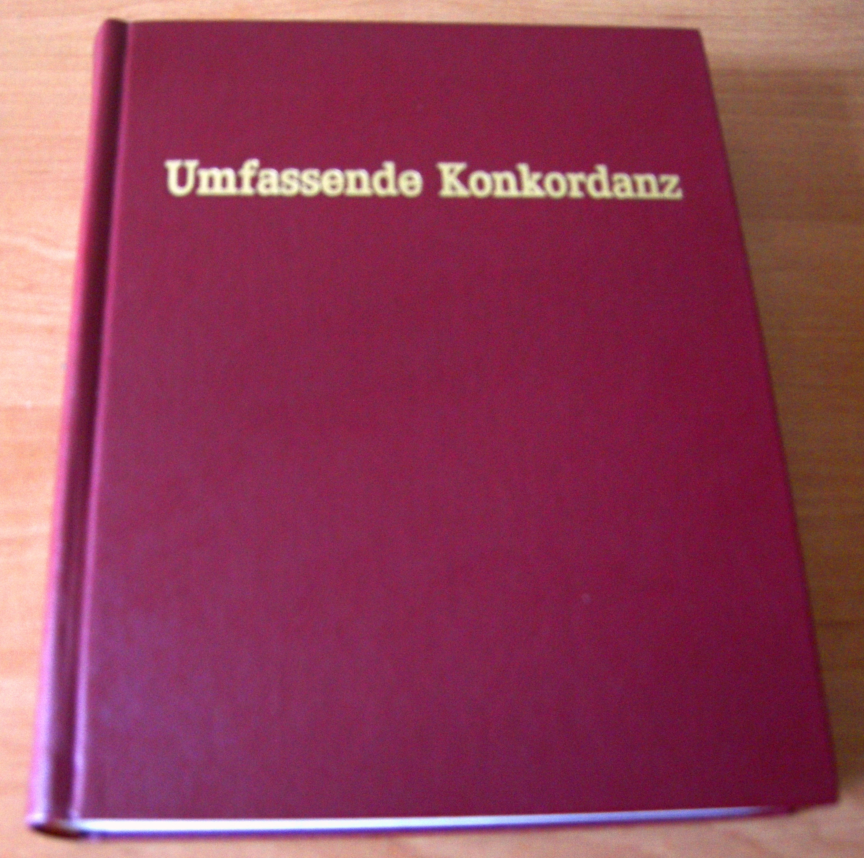 Comprehensive Concordance of the New World Transalation of Holy Scriptures